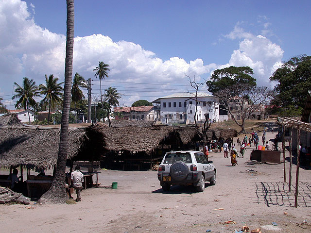 The fish market of Bagamoyo, Tanzania